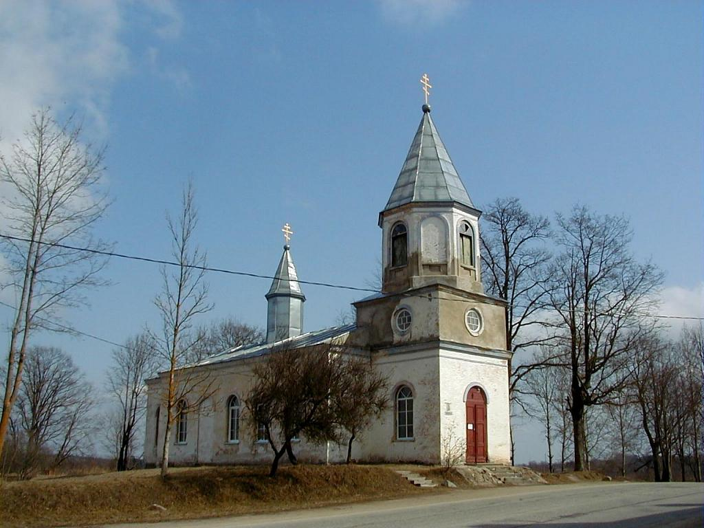 Ortodox church in Madona